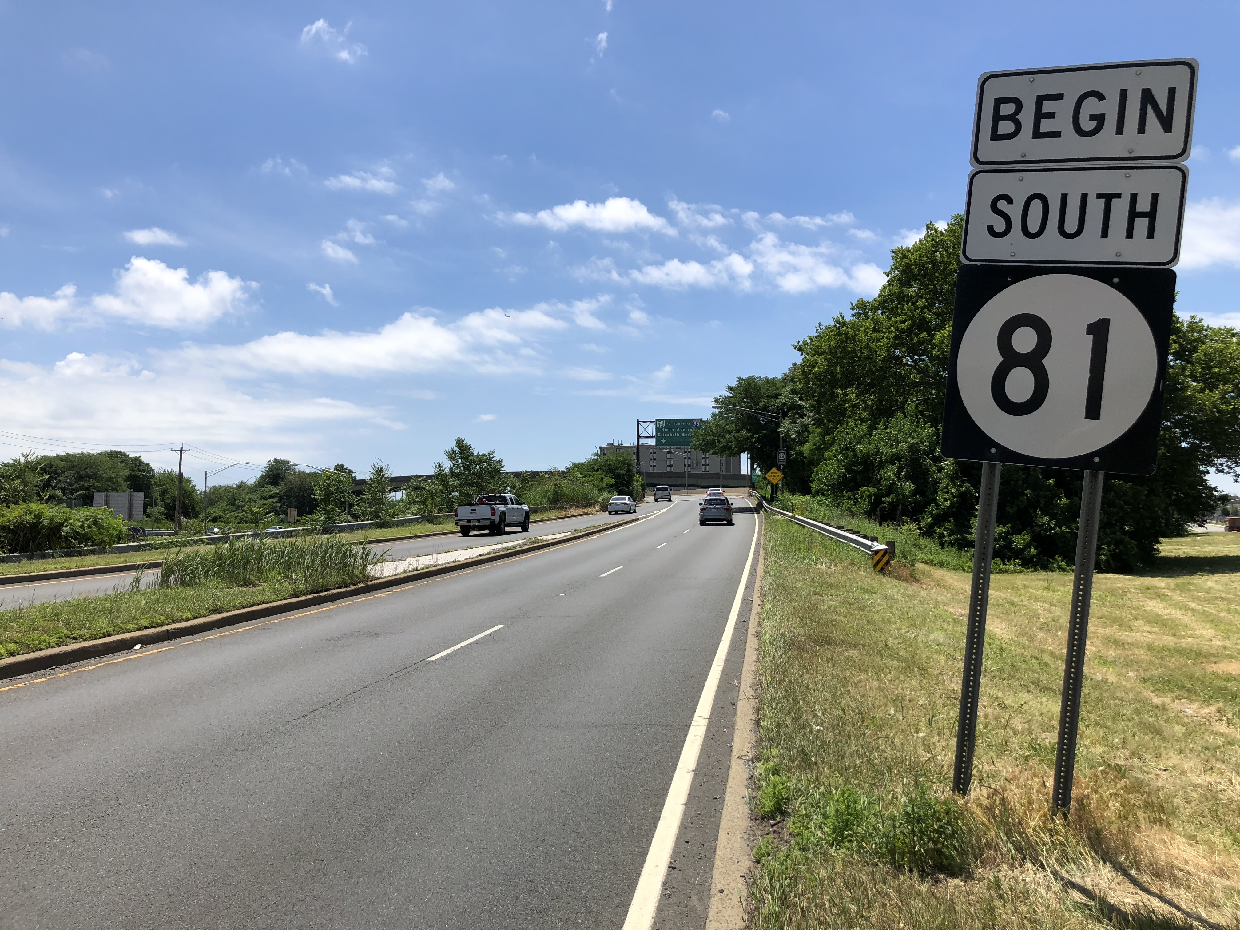 View south along New Jersey State Route 81 just south of U.S. Route 1 and U.S. Route 9 in Elizabeth, Union County, New Jersey